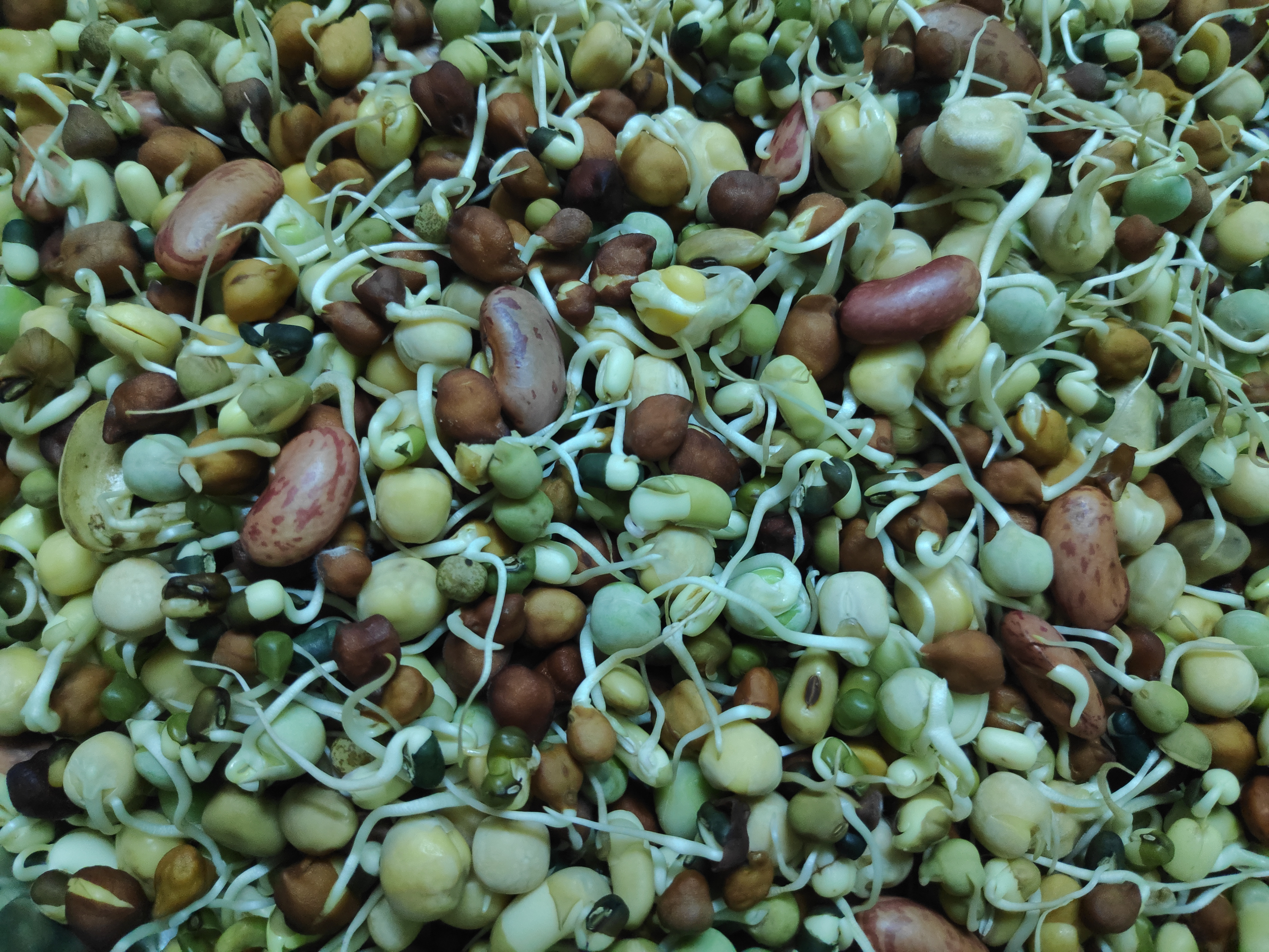 Kwati is a collection of various types of sprouted beans which is prepared on the day of Janai Purnima also known as Kwati Purnima.